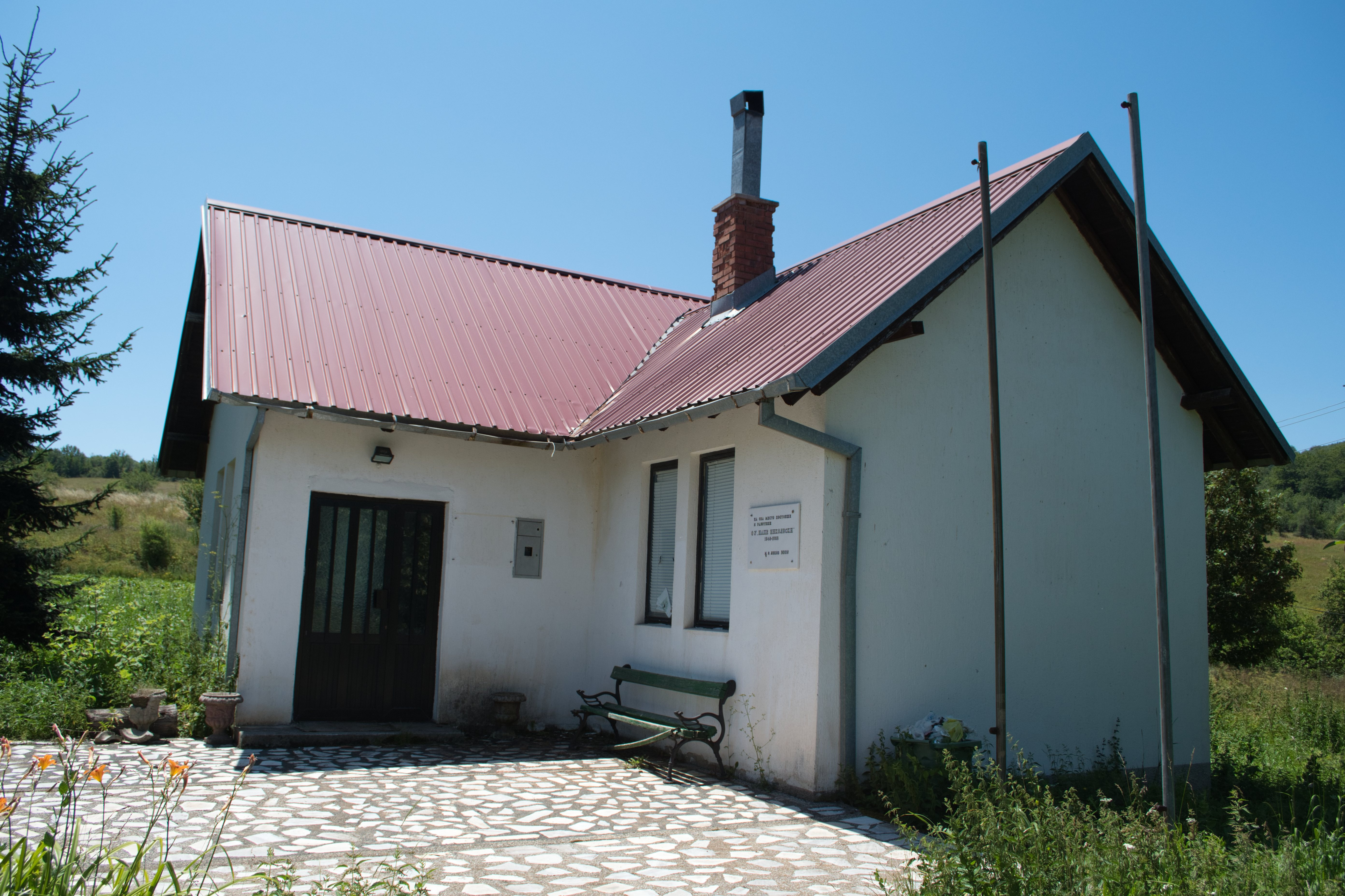 Former Nace Nikoloski Primary School in the village of Lokov